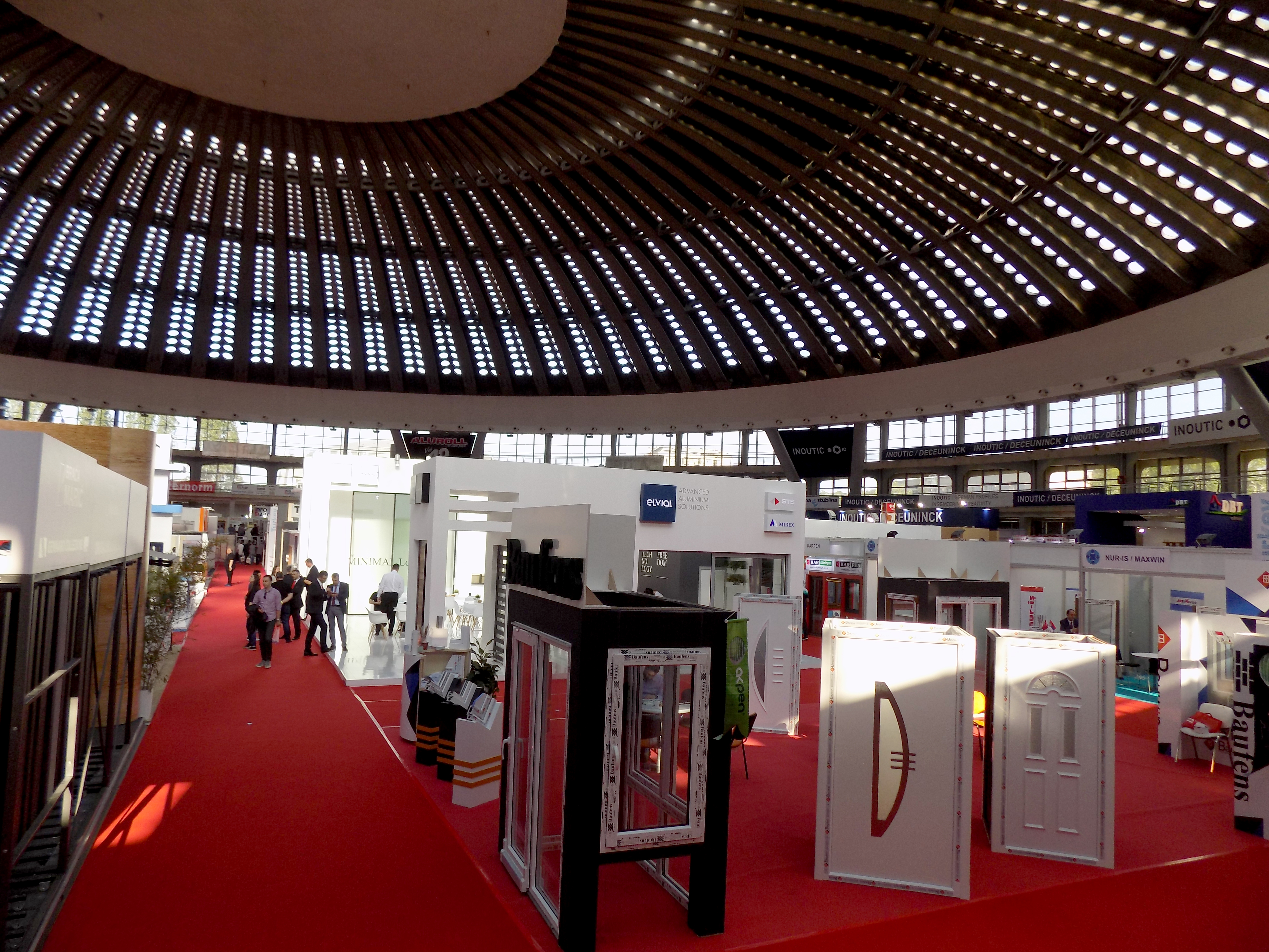 44. SEEBBE – BUILDING TRADE FAIR (UFI), April 18 – 21, 2018